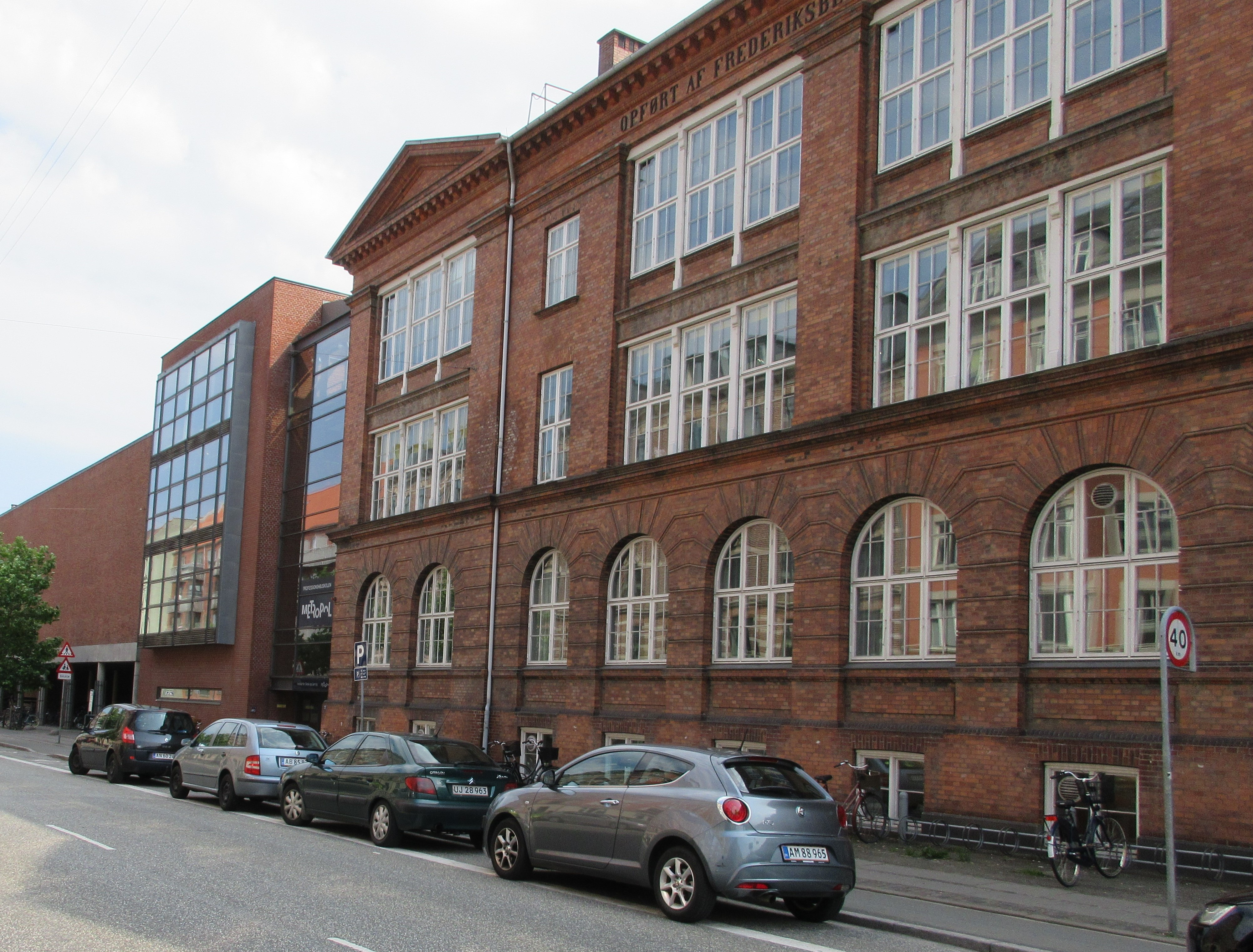 MUC Nyelandsvej in Frederiksberg, Copenhagen, Denmark